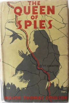 The Queen of Spies by Thomas Coulson Constable 1935. The life of Louise de Bettignies.